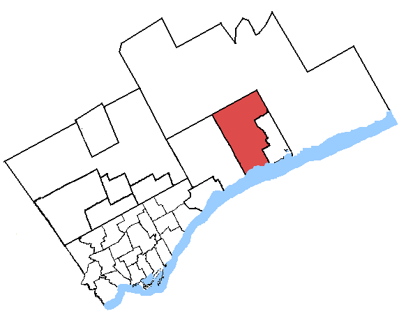 Map of the Whitby—Oshawa electoral district. Based on Earl Andrew's maps, created by SimonP.